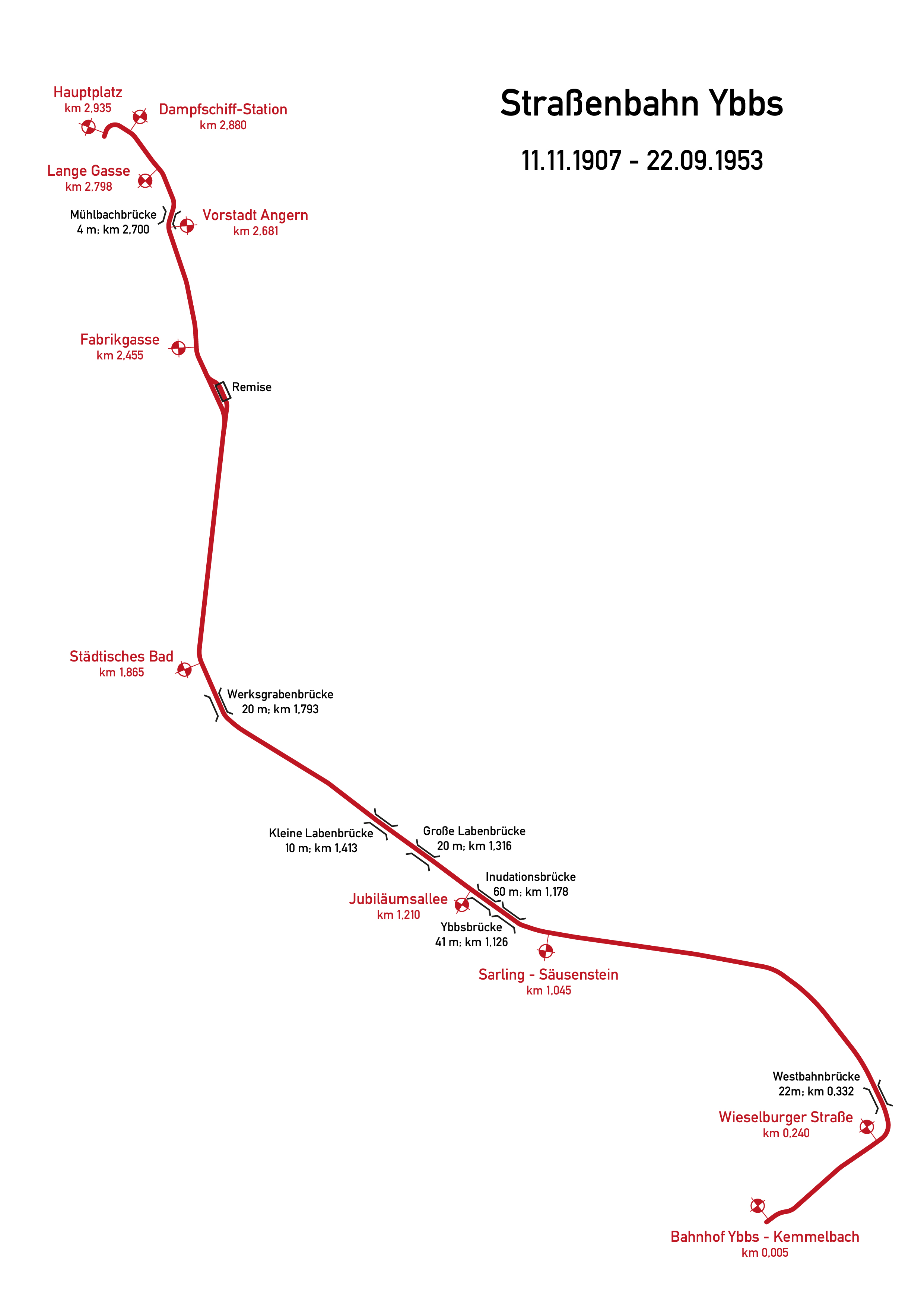 Route map of the tramway of Ybbs (Austria)